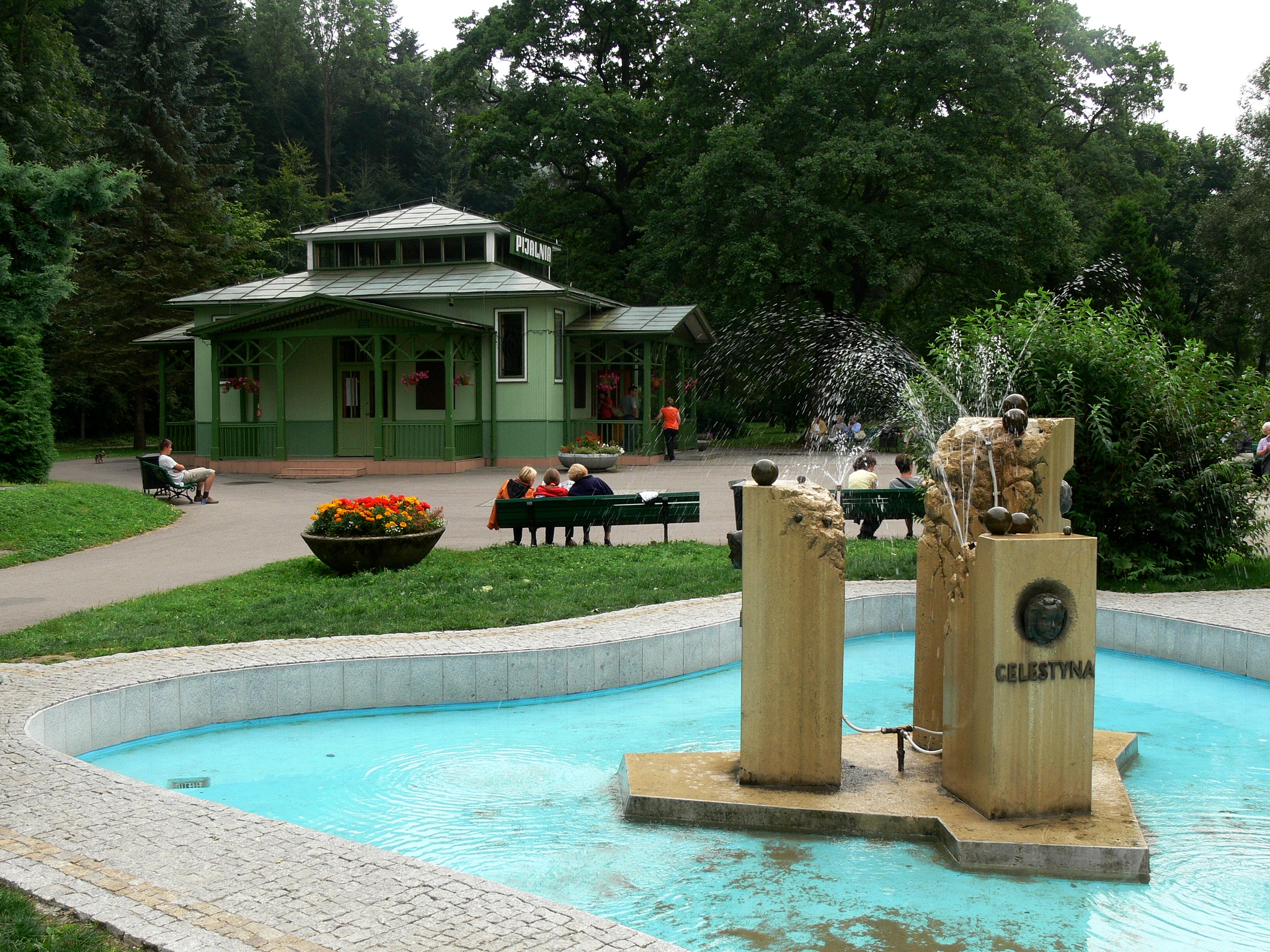 A pump room and the fountain in Rymanowie-Zdroju